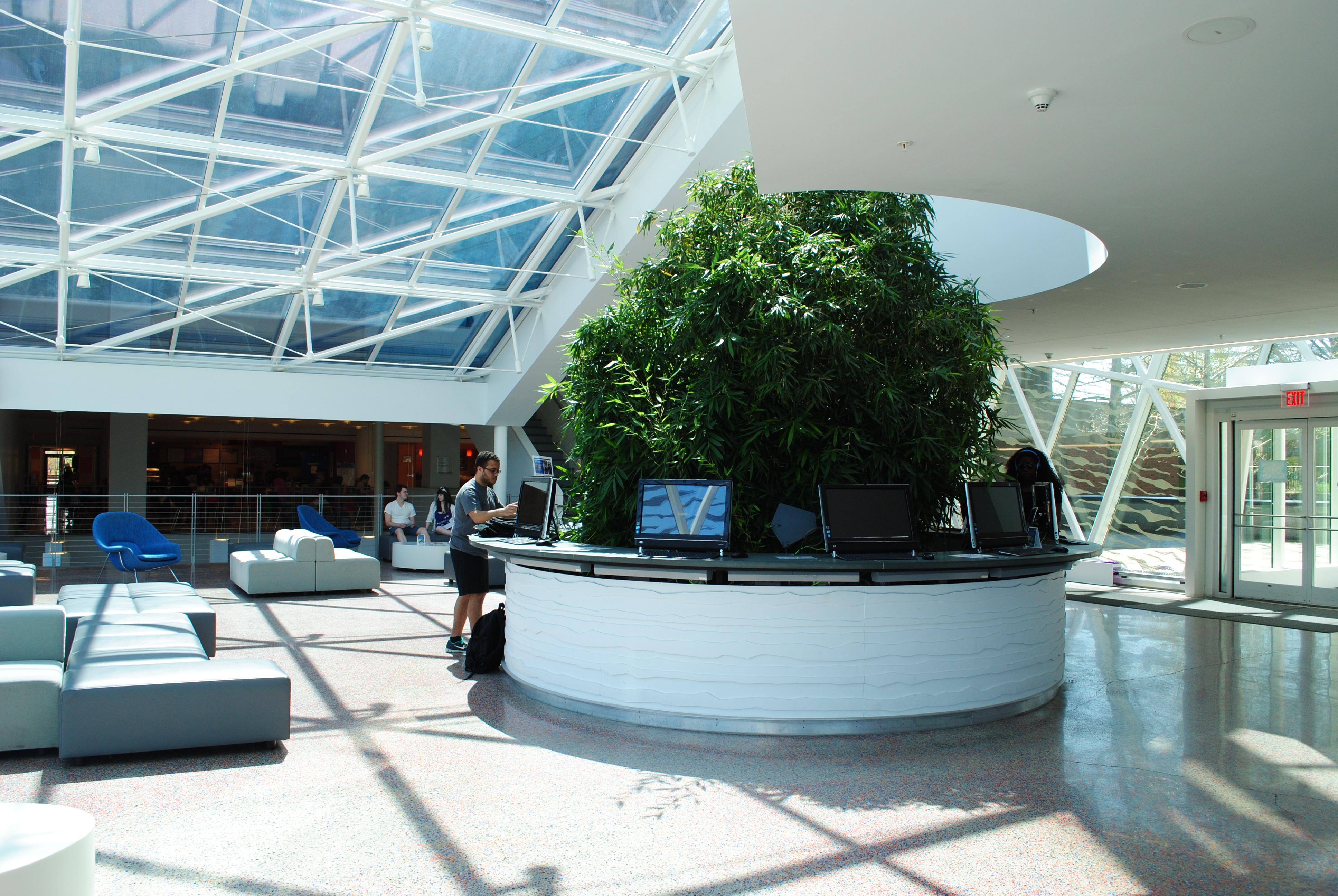 A picture of inside the Atrium at SUNY New Paltz in New Paltz, NY.